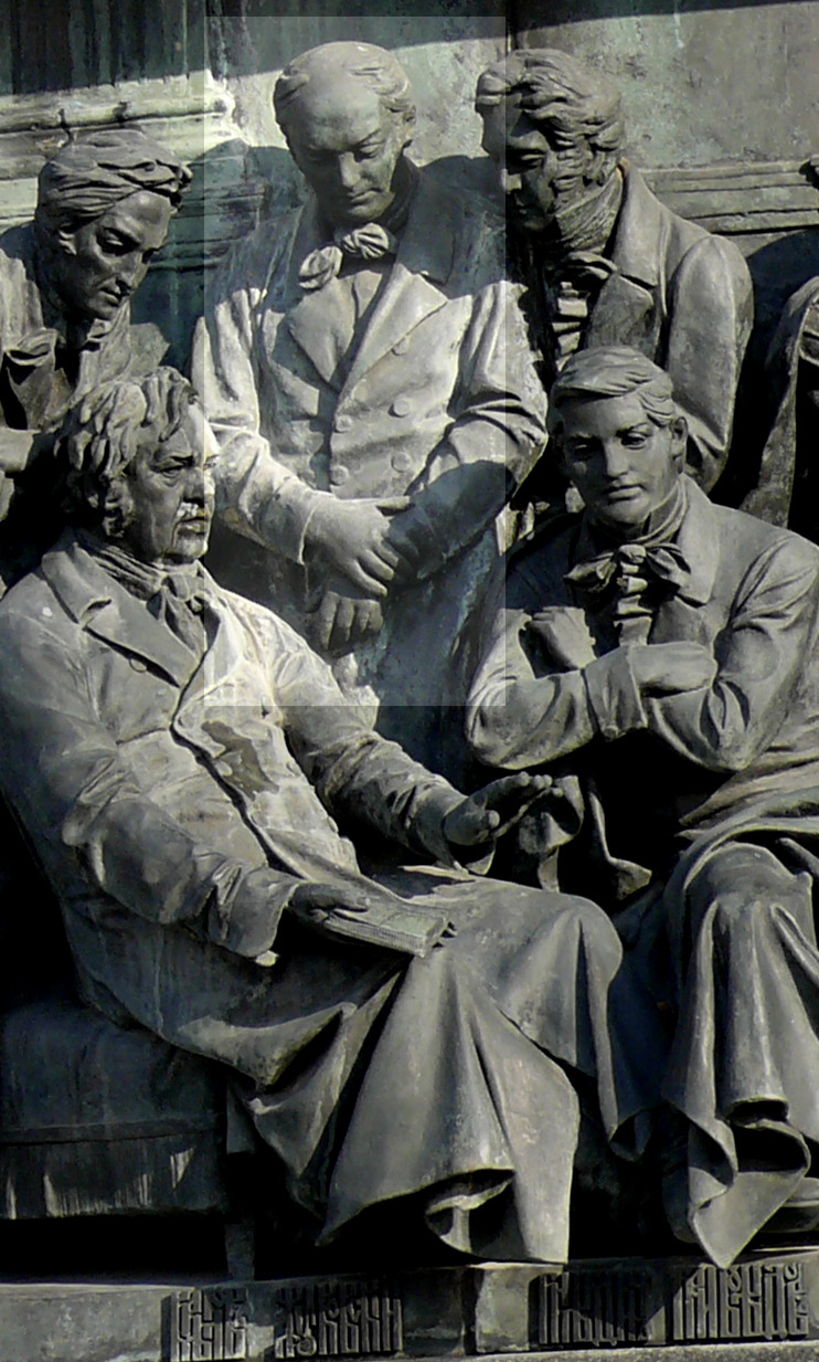 Vasily Zhukovsky on the Monument «Millennium of Russia» in Veliky Novgorod